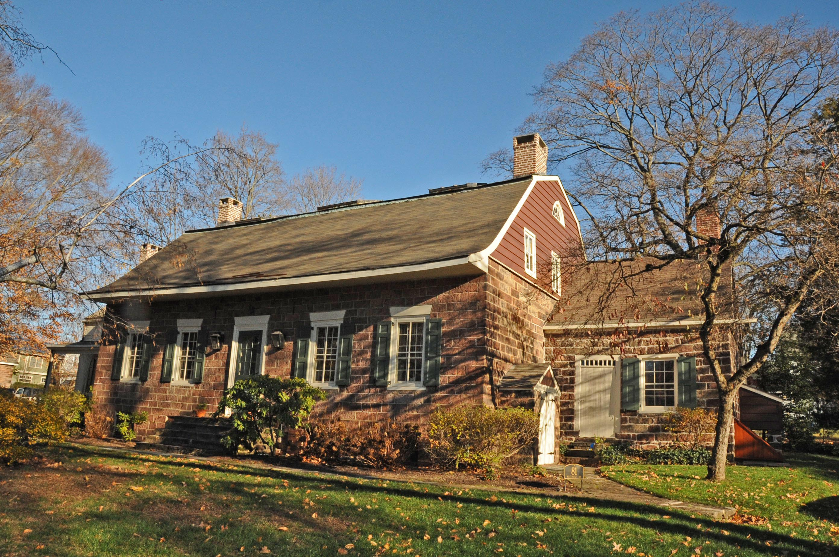 DUTCH COLONIAL BUILT BY ROELOF WESTERVELT IN 1745 ON LAND PURCHASED BY HIS GRANDFATHER IN 1695. THE CENTRAL SECTION WAS COMPLETED CIRCA 1798 AND THE NORTH WING ADDED IN 1825. IT STAYED IN THE WESTERVELT FAMILY UNTIL 1925